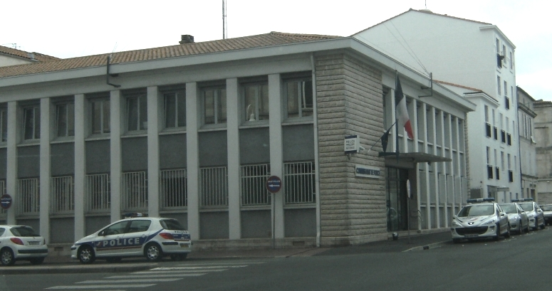 Commissariat de police de Rochefort (17)